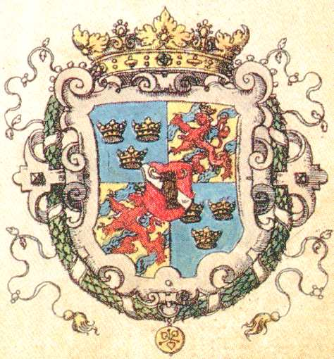 Coats of arms of Sweden